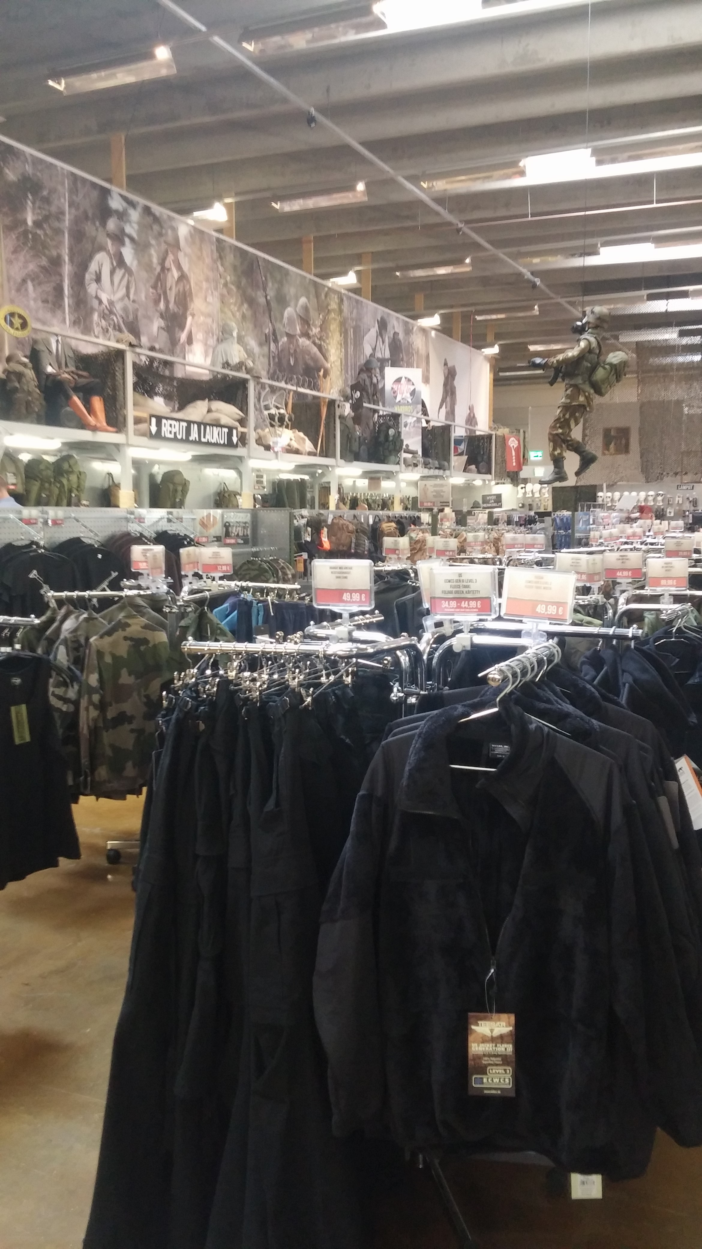 Varusteleka is an army and outdoor store located in Finland.